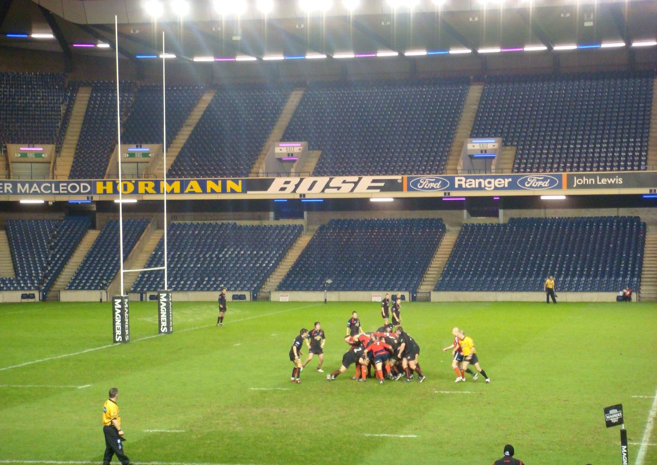 A maul during a game of rugby union in the Magners League between Edinburgh Rugby and Munster.